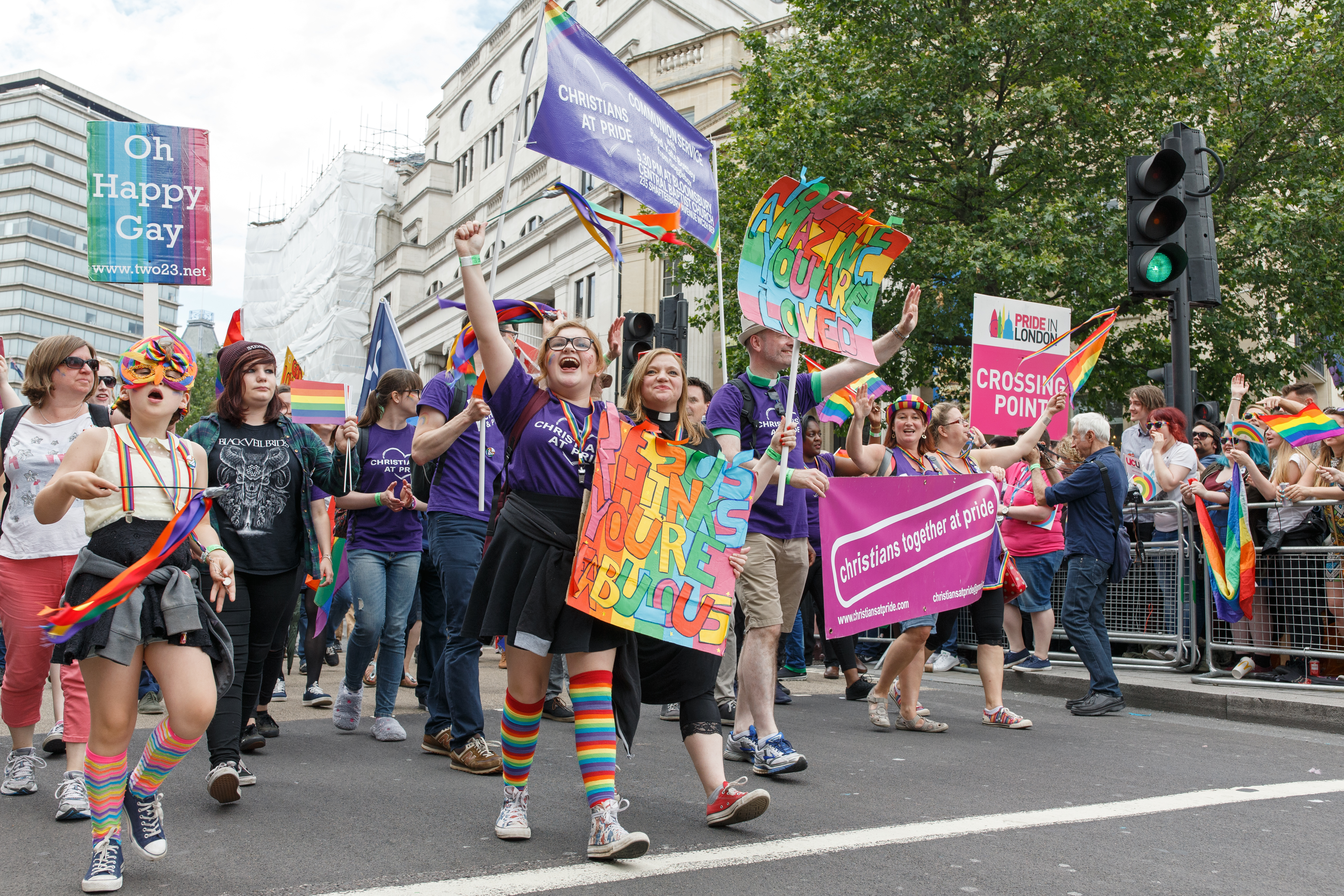 Young LGBT Christians parading at Pride in London 2016.